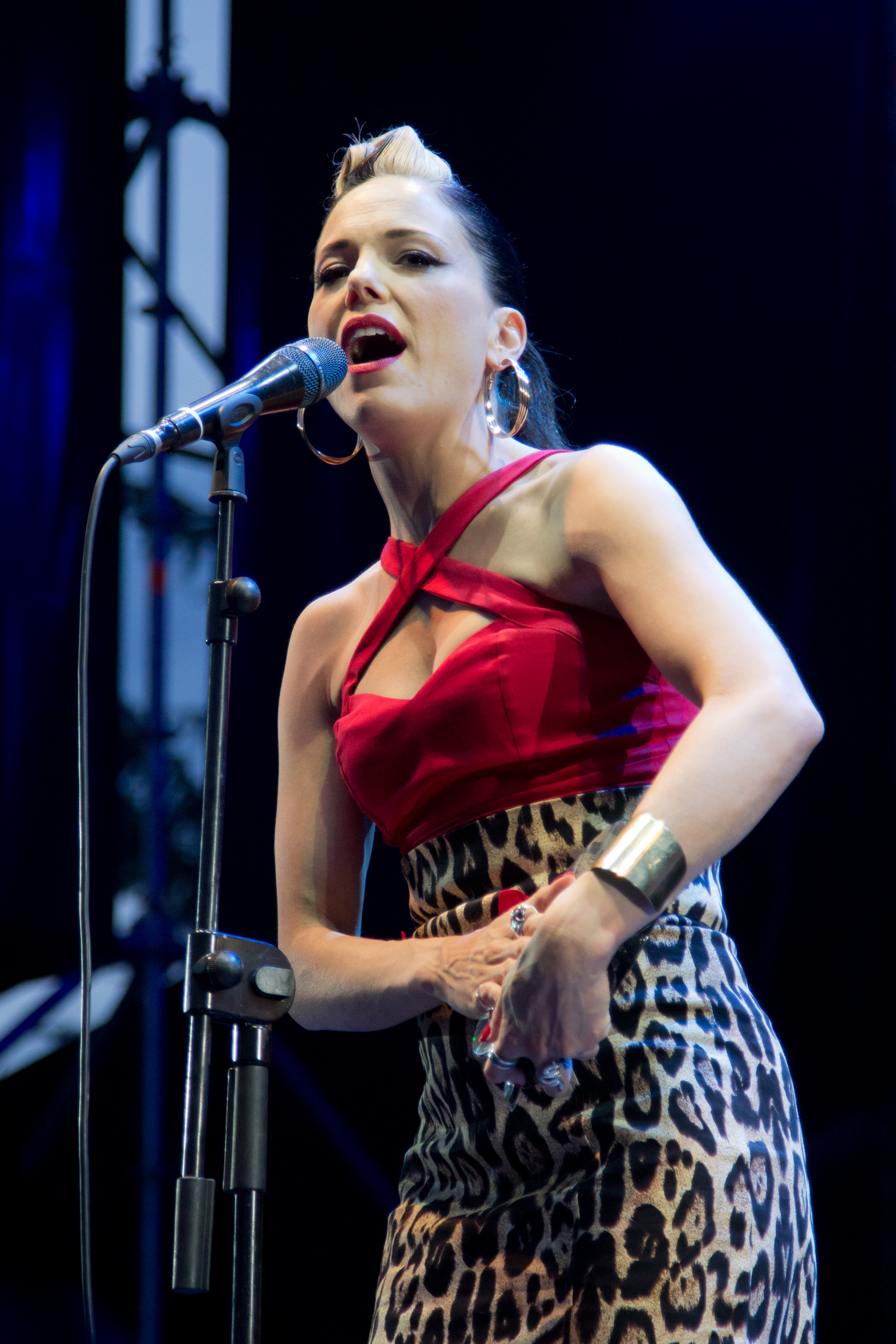 Imelda May at Madgarden Fest 2015, Madrid, Spain.